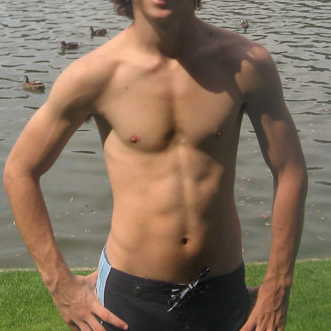 A photo of a well shaped, teenage body.